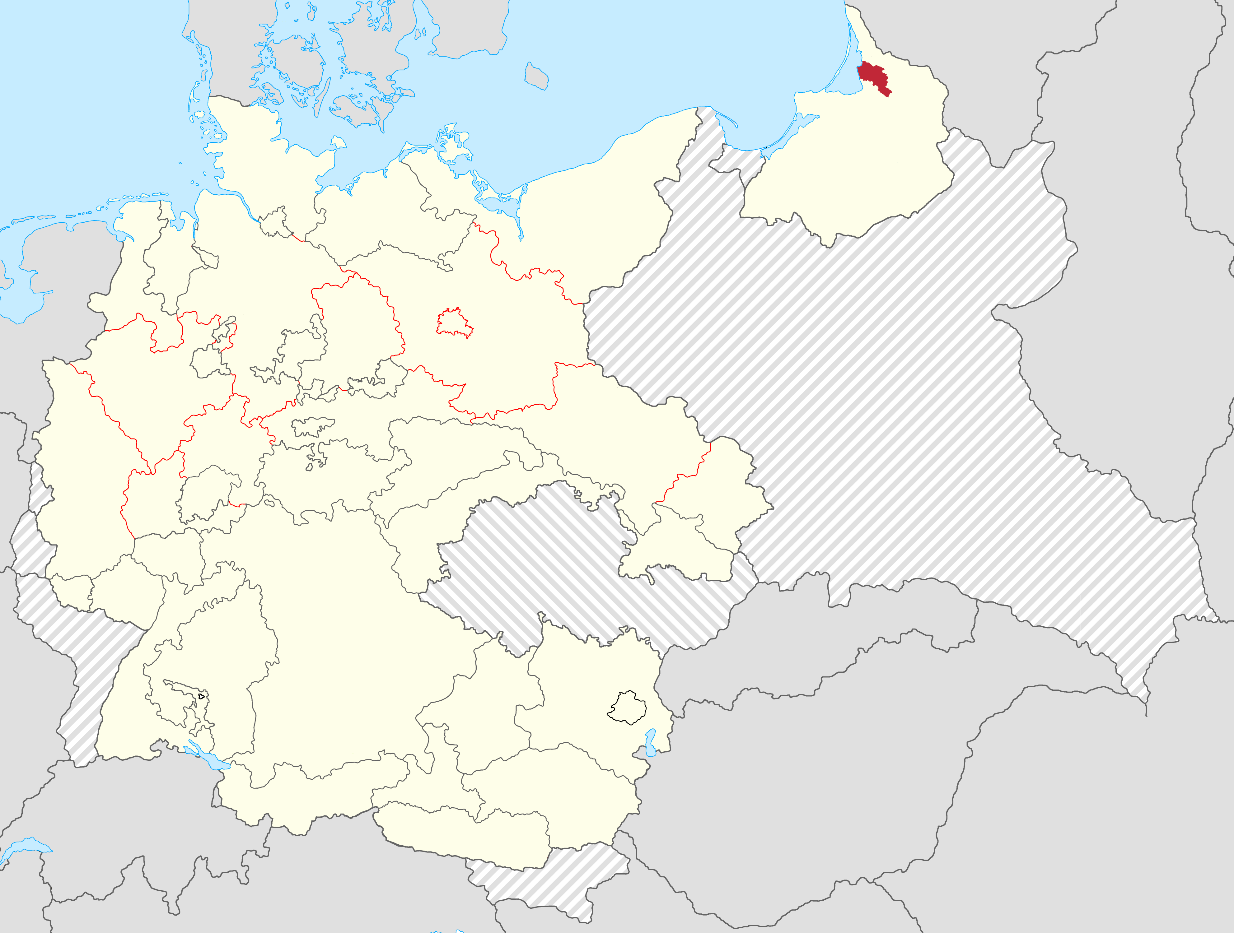 Locator map of Landkreis Elchniederung in Germany 1945